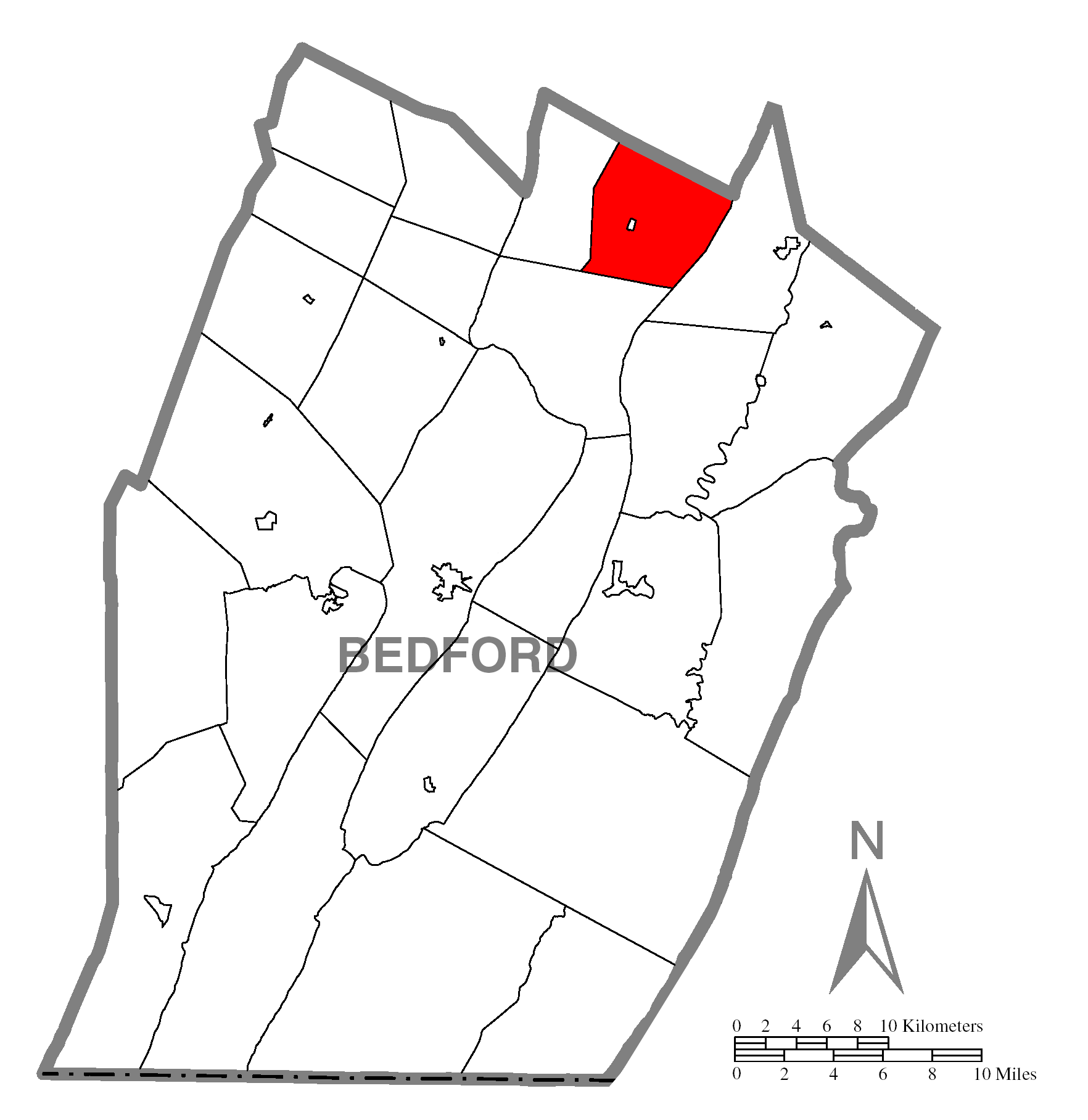 A map of Bedford County showing Woodbury Township, Pennsylvania (alternate) highlighted on the map.